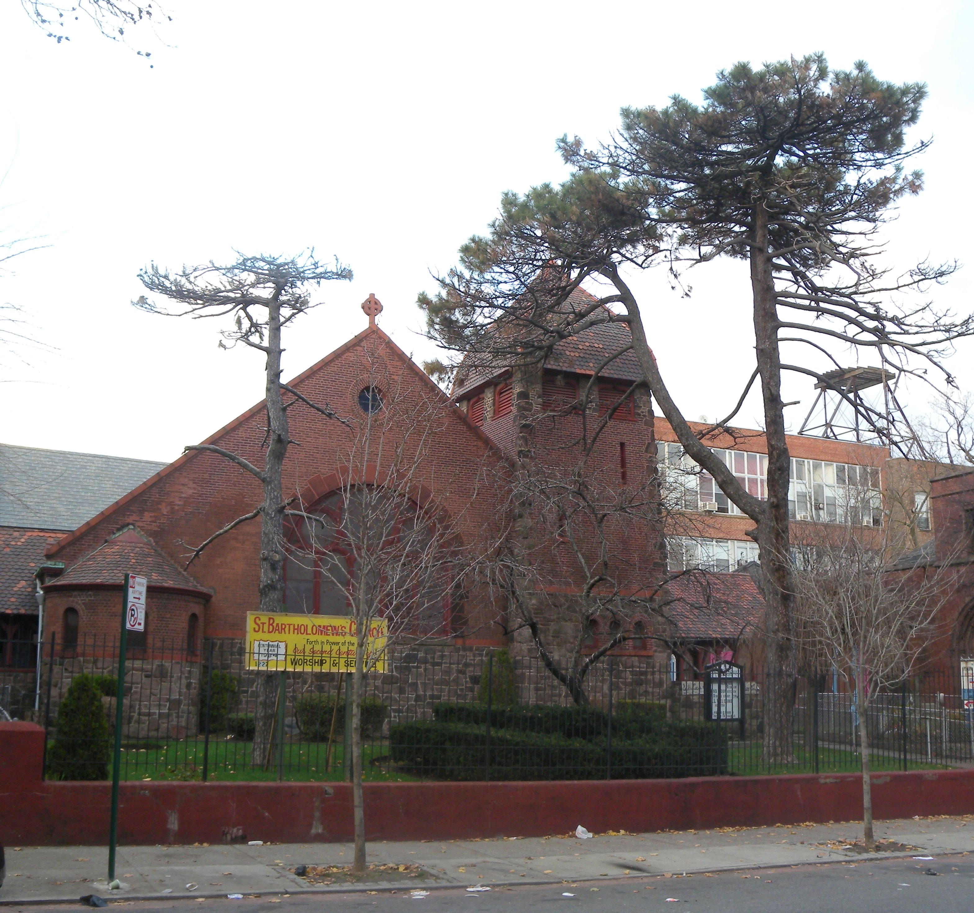 Looking north across Pacific Street at St Bartholemew Episcopal Church on a mostly cloudy afternoon.